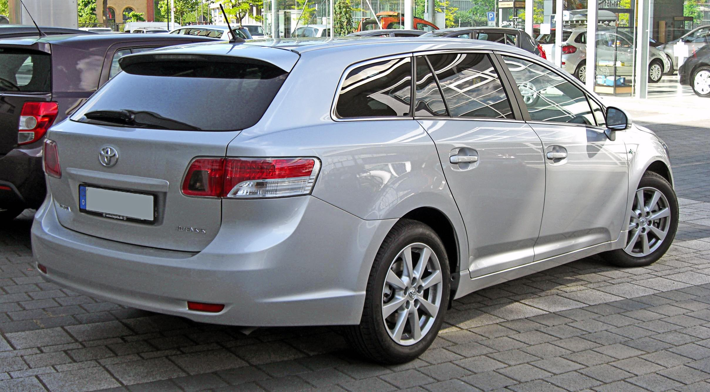 Toyota Avensis III Combi